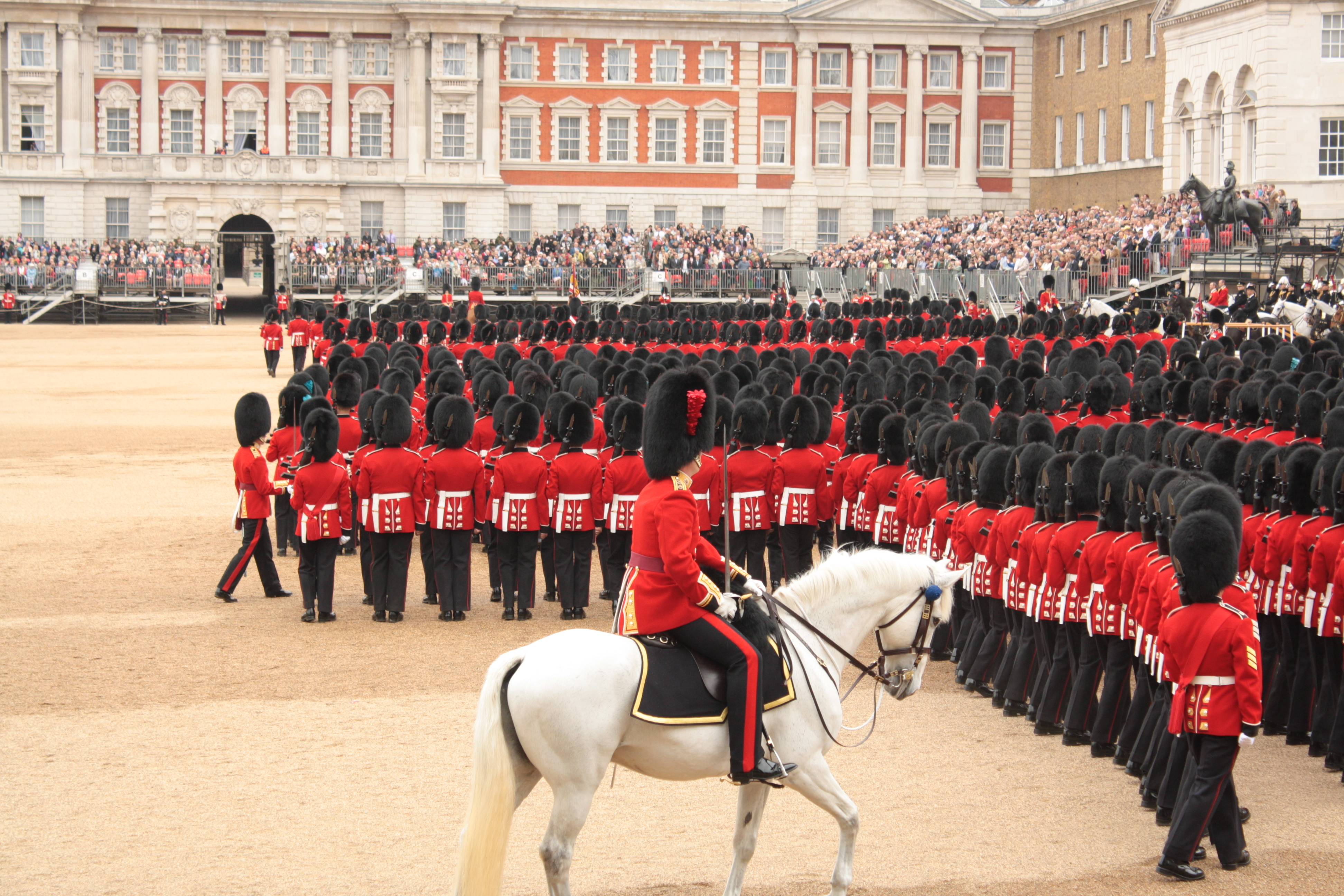 Horse Guards at the rehearsal of the Queen's birthday parade in 2012